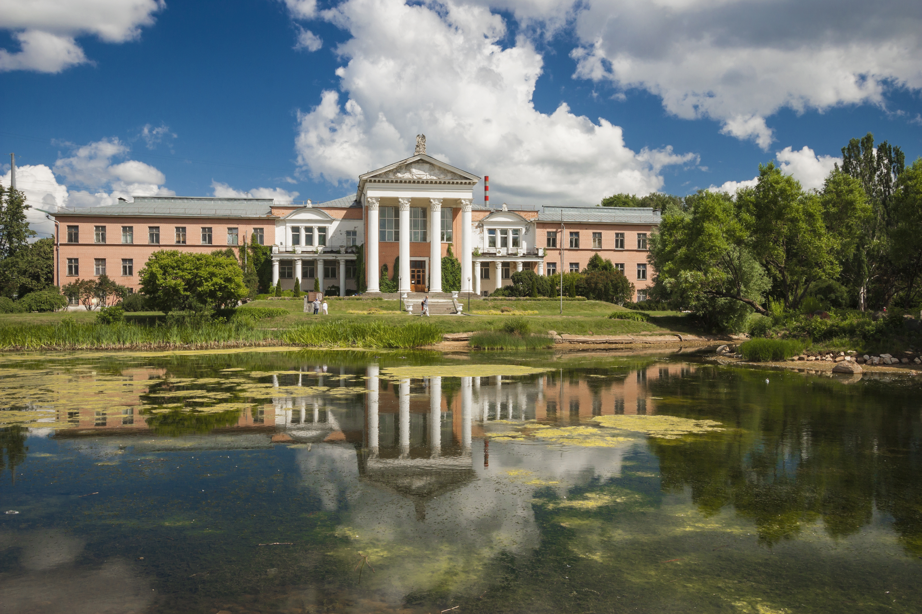 The central building of the Botanical Garden, Moscow